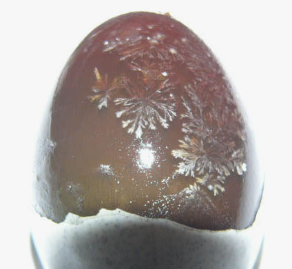 Century egg showing snow flake patterns. Photo taken by the group of WingkeeLEE in May, 2007.